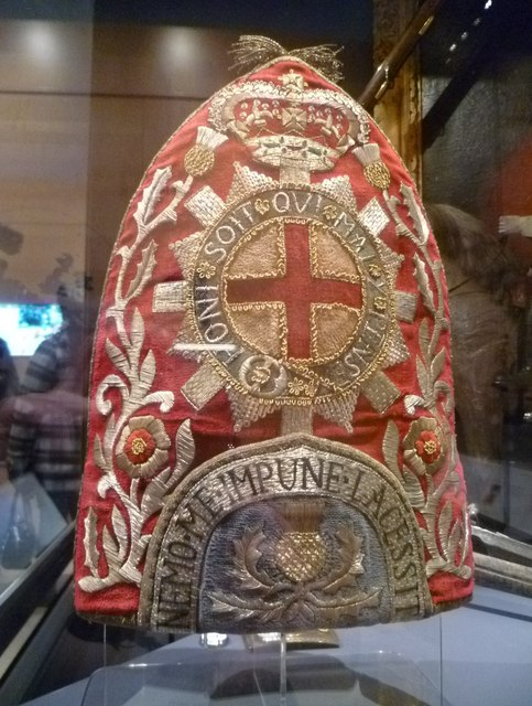 18thC cap of a Scottish soldier in the British Army. An exhibit in the Scottish National War Museum, Edinburgh Castle